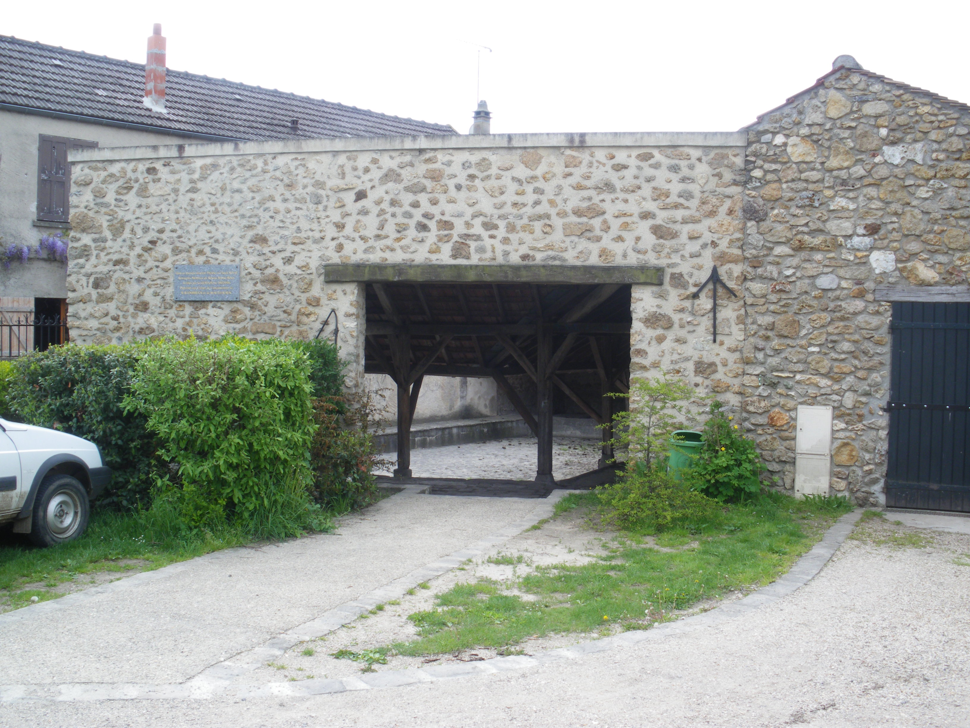 Wash house in Machery, Vaugrigneuse city, Essonne, France